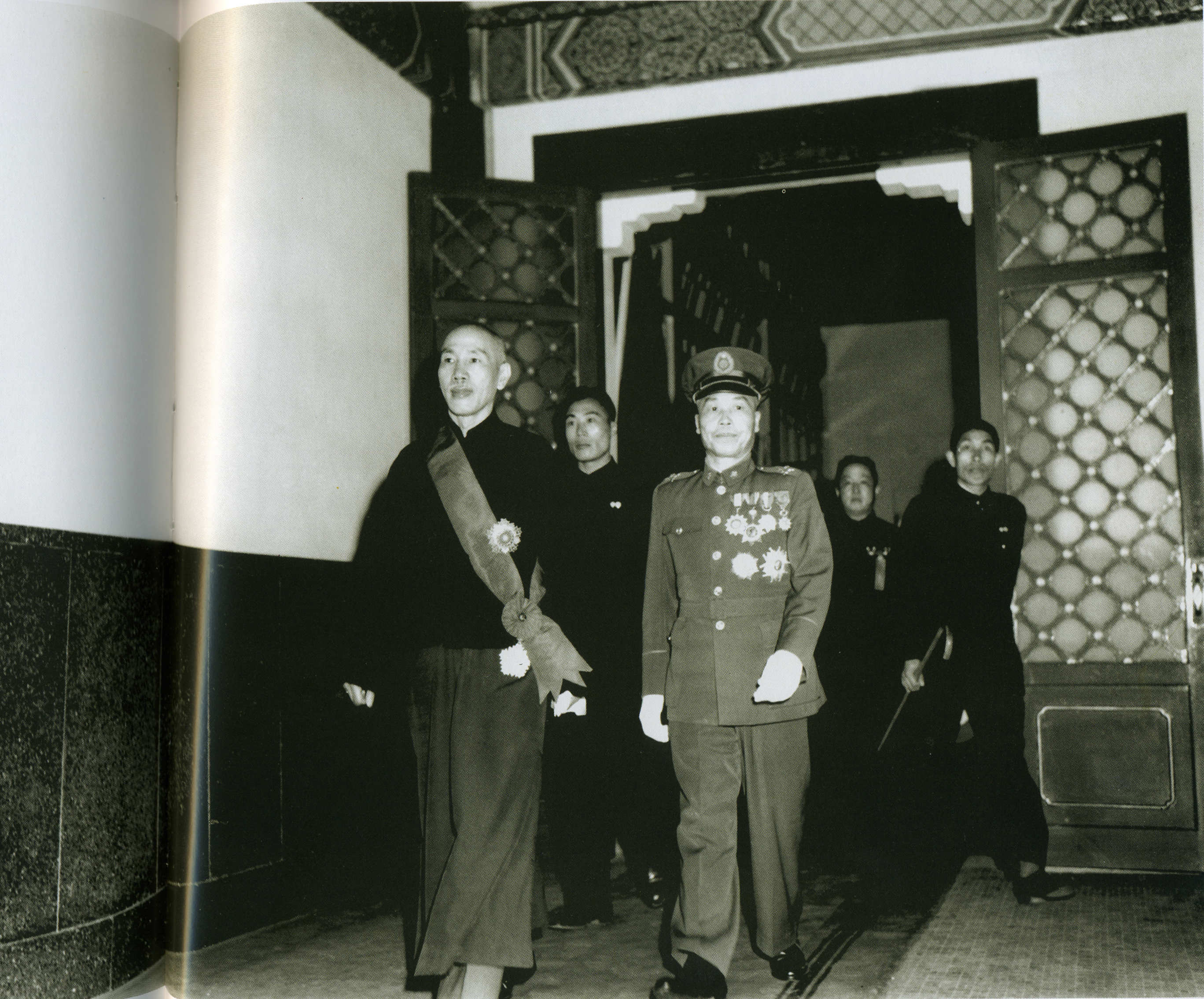 1948 Chiang and Lee at the president inauguration